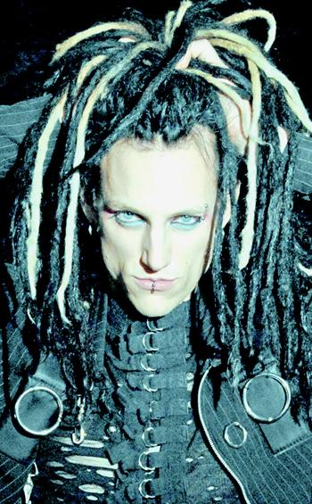 Picture of Matthew Setzer